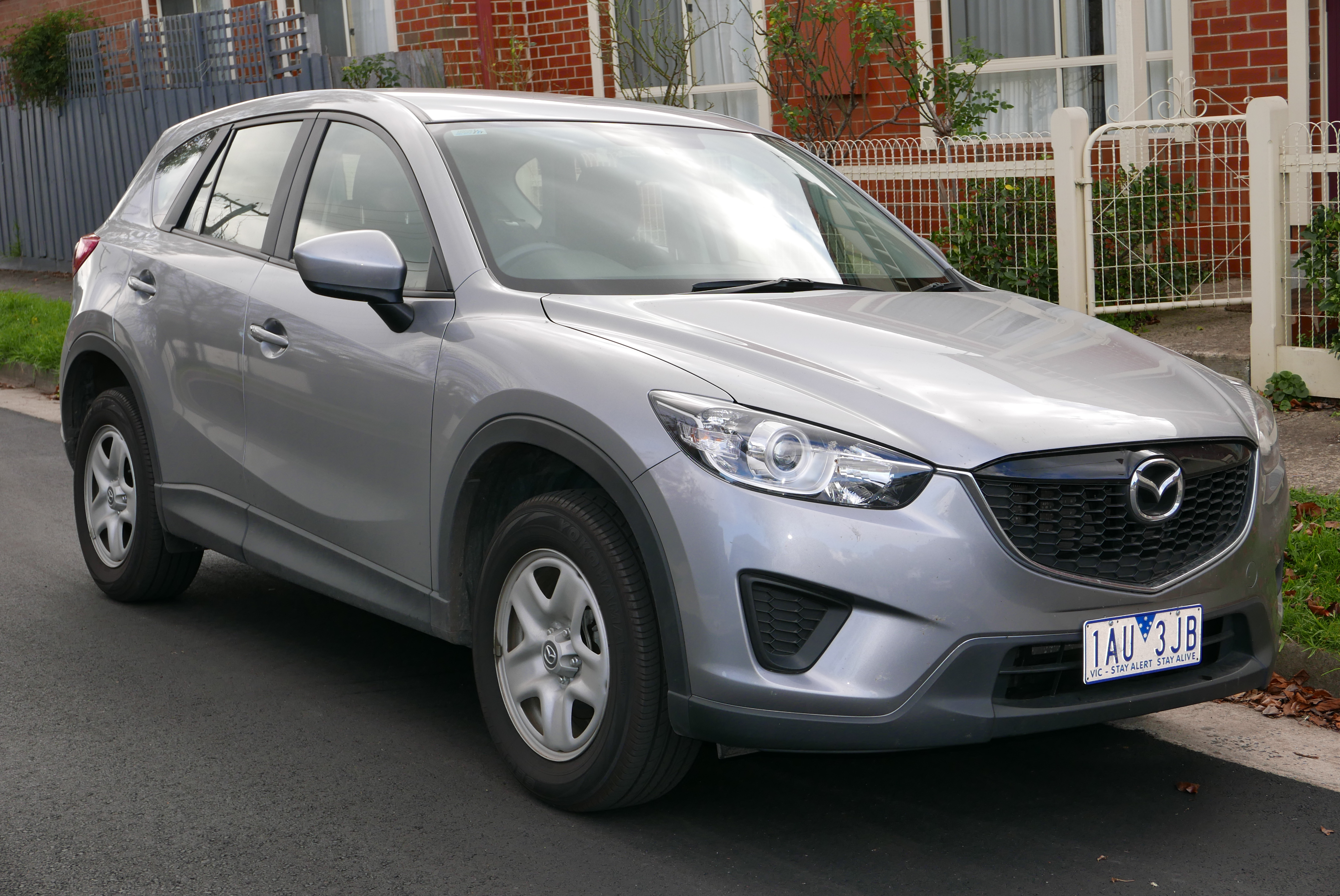 2013 Mazda CX-5 (KE MY14) Maxx AWD wagon. Photographed in Northcote, Victoria, Australia. Vehicle registration enquiry resultsJurisdictionVictoriaRegistration1AU3JBChassis codeJM0KE103100226739Engine codePY30290189Compliance date2013-10Year of manufacture2013